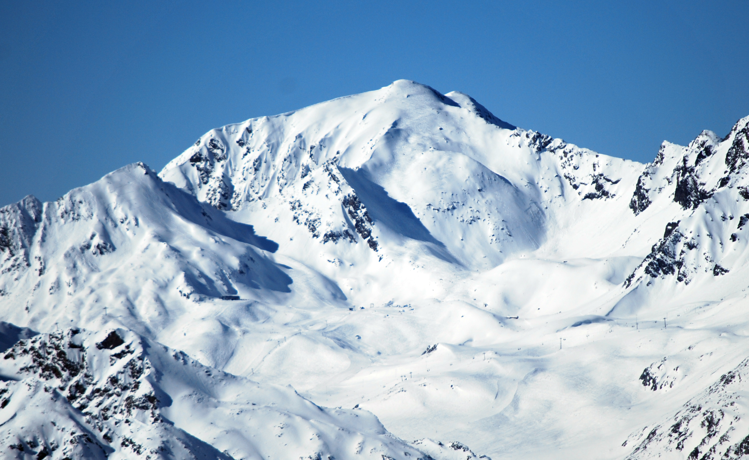 Pirchkogel from SE (Fotscher Windegg)